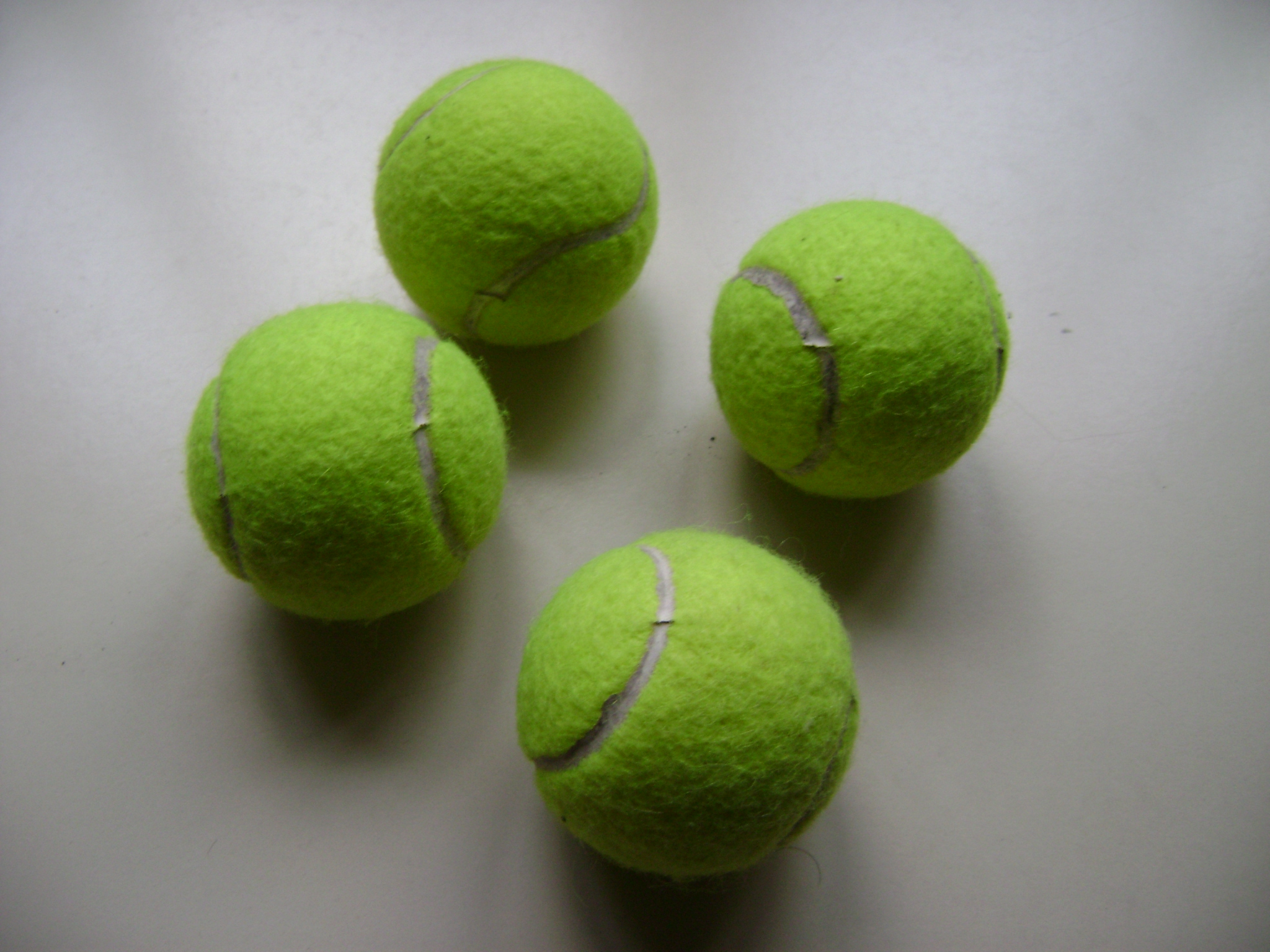 Tennis balls.